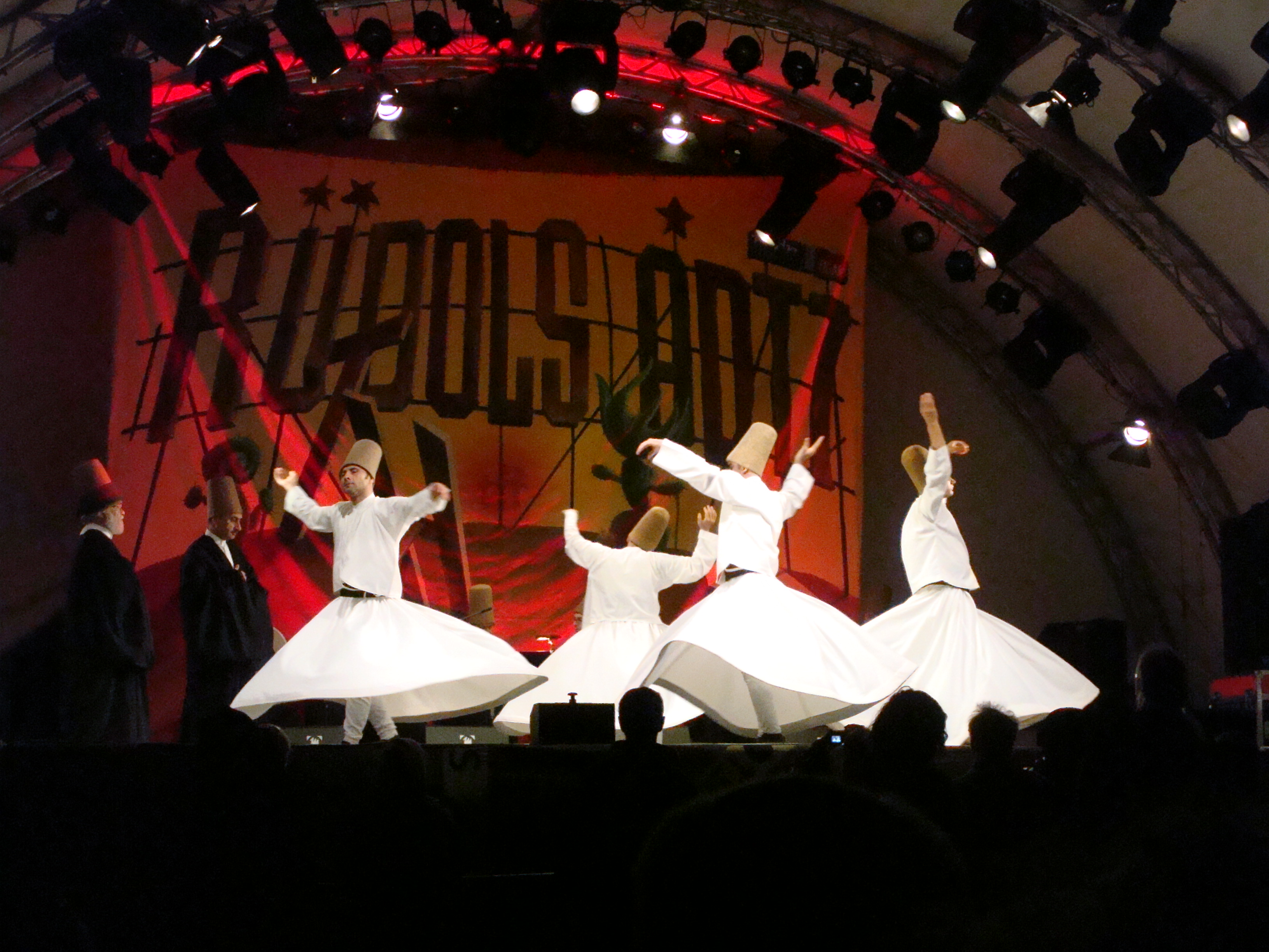 Galata Mevlevi Ensemble from Galata in Istanbul performing the Sufi ritual „Sema“ at the TFF.Rudolstadt 2007 in Rudolstadt, Germany